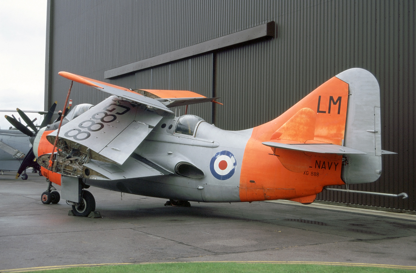 A very good looking Gannet T5 at Lee on Solent on 4 June 1994. XG888 is now perserved in the RAN Aviation Museum in New Zealand.